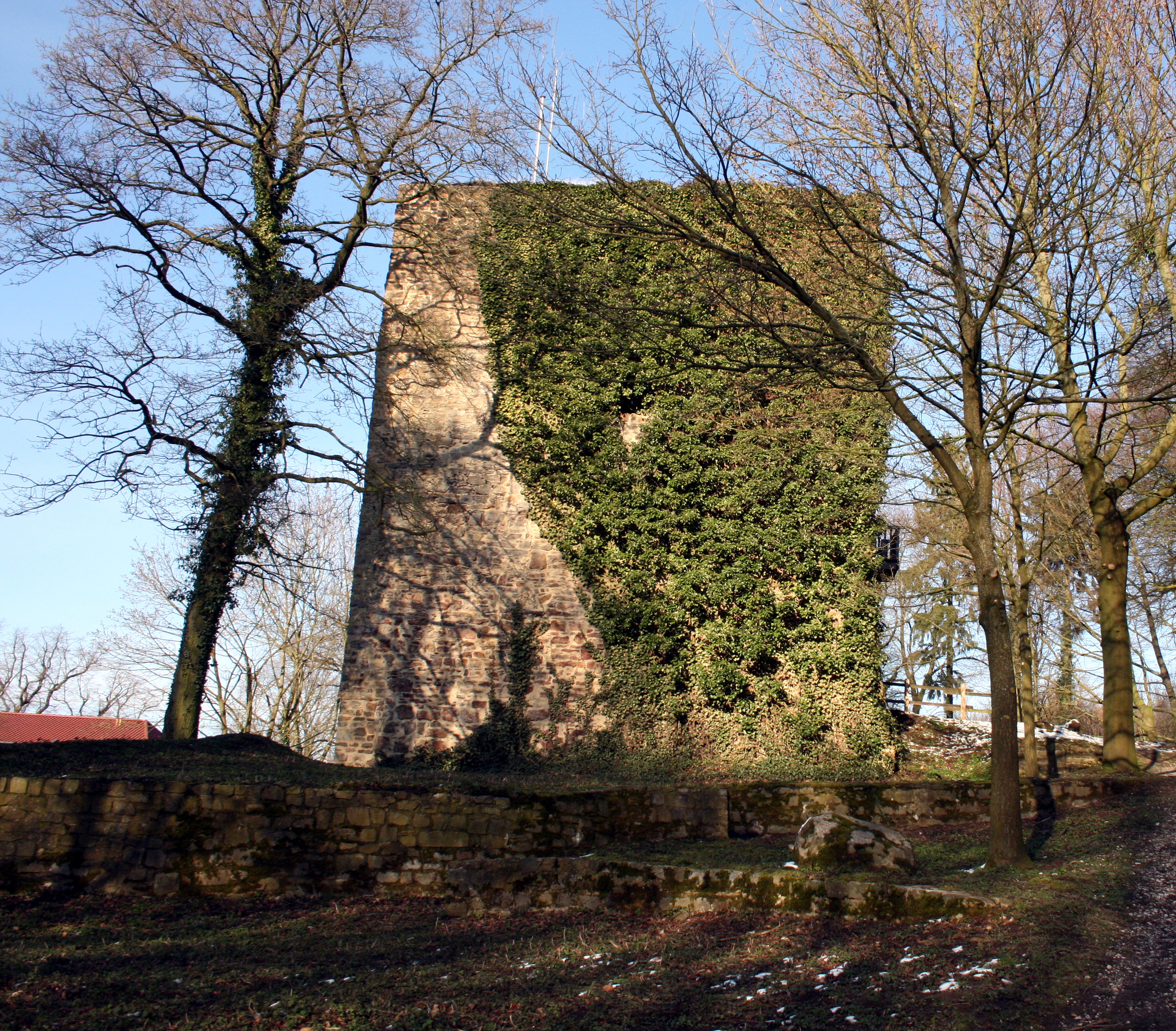 This is a photograph of an architectural monument. It is on the list of cultural monuments of Preußisch Oldendorf